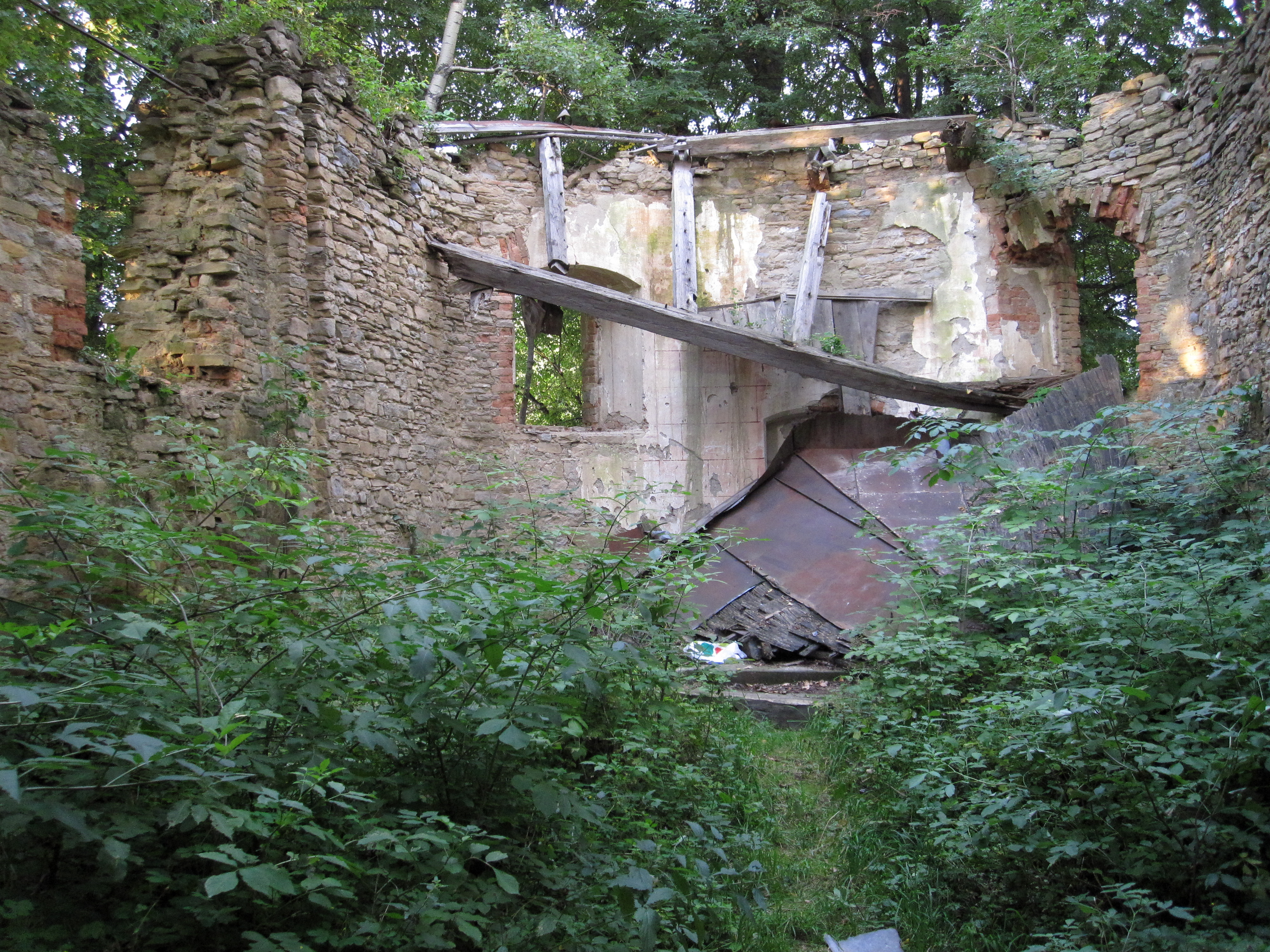 Orthodox Church of St. Peter and Paul in Nagórzany